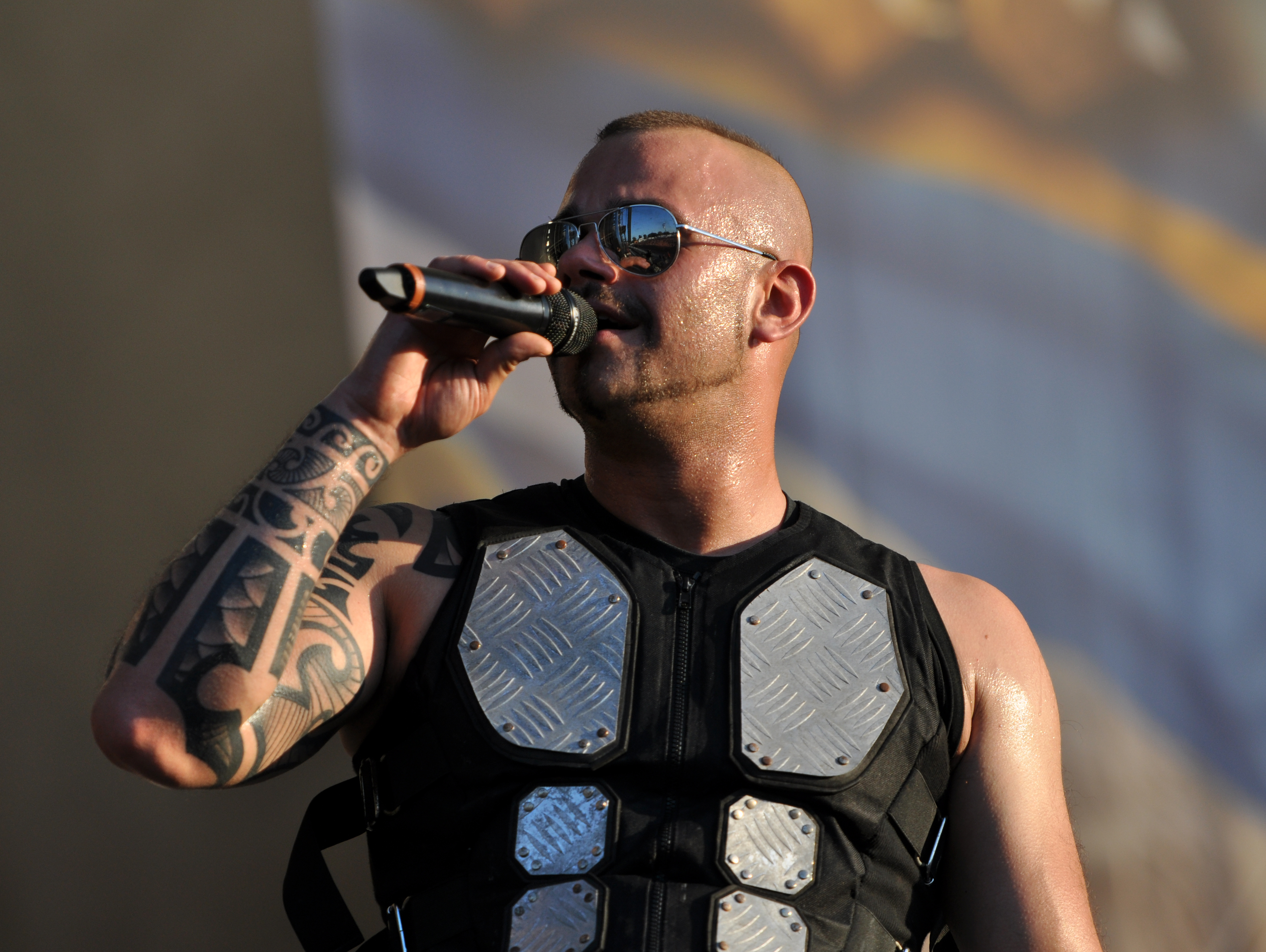 Sabaton at Wacken Open Air 2013